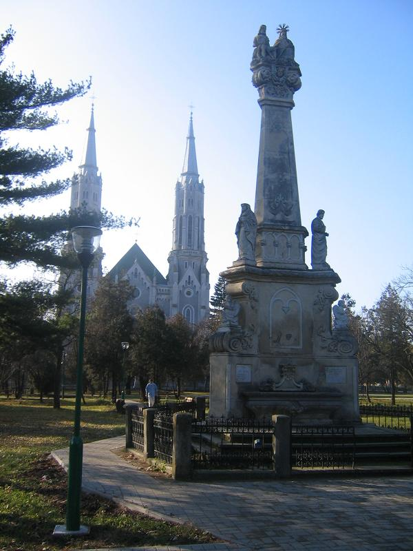 The roman catholic church in Vinga (Theresiopolis), with the Blessed Trinity Monument, Arad district, Romania